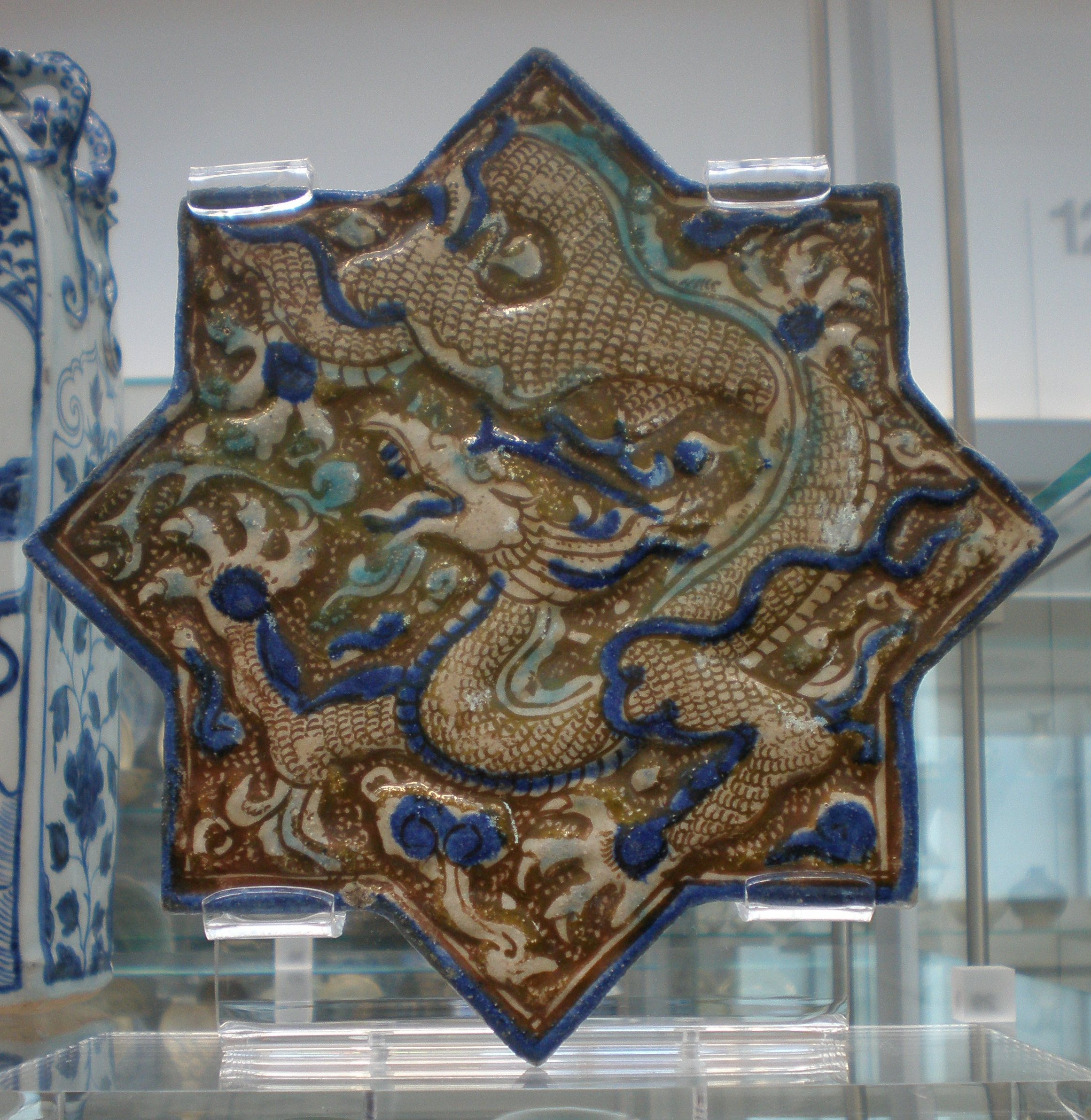 Iran, probably Takht-i Sulayman 1270-5 Tile in the shape of an eight-pointed star, fritware. The whole field is completely filled with the motif of a Chinese dragon, which is moulded in light relief, and decorated in reserve against a ground of golden-brown lustre. Details of scales on the dragon's body are added in lustre and the decoration is enhanced by touches of turquoise and cobalt blue pigments. A band of dark cobalt blue outlines the whole tile. Made in Iran (Kashan), probably from Takht-i Sulayman, ca. 1270-75 George Salting Bequest Collection ID: C.1970-1910 This photo was taken as part of Britain Loves Wikipedia in February 2010 by David Jackson.